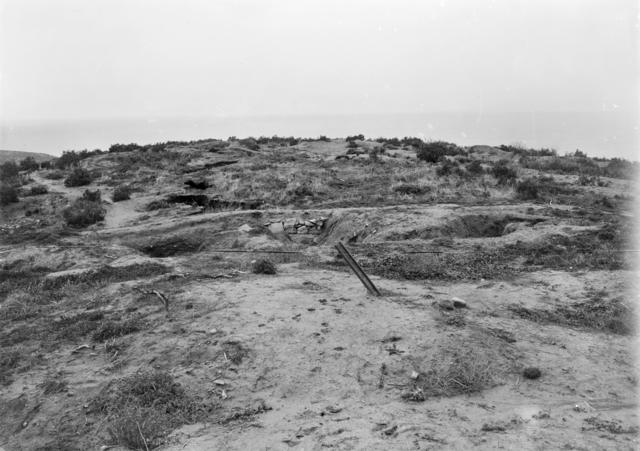 View from the trenches previously occupied by Ottoman forces, looking at the former Australian trenches at the Nek, Gallipoli. Photo taken after the war in 1919.